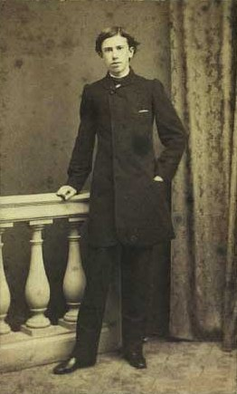 Gebhard Elimar Otto Zytphen-Adeler (1843-1917), Danish Baron and farmer